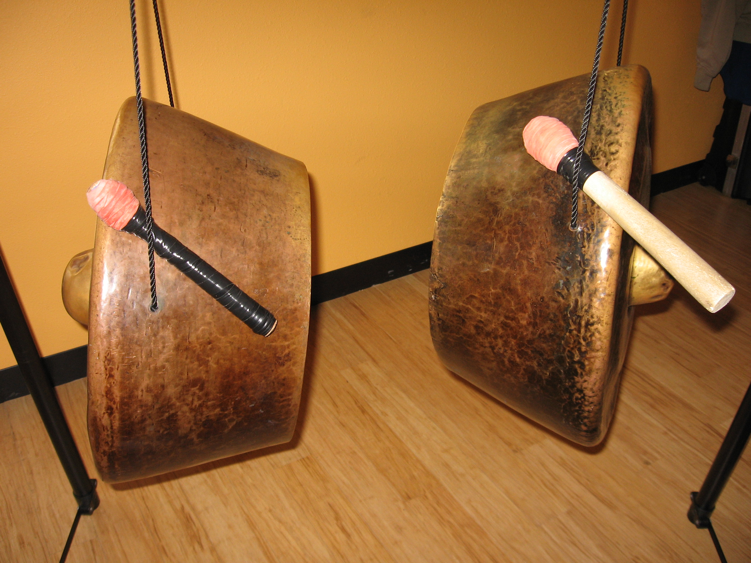 The two Philippine vertically hanged, wide-rimmed gongs known as the agung used as a supportive/accompanying instrument in the kulintang ensemble.